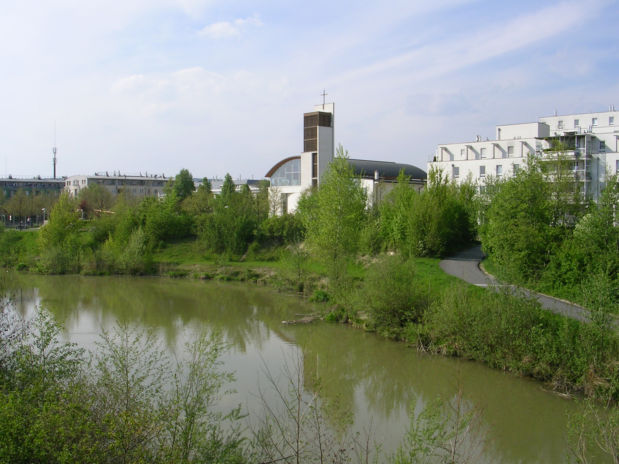 Parish church "Cyrill und Method" of Neu-Stammersdorf (Wien). In front of the church the Marchfeldkanal.